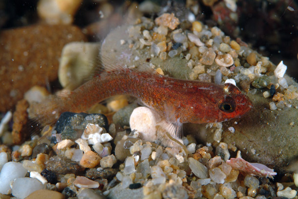 Odondebuenia balearica photographed near Calafuria (Tuscany, Italy). Depth 15 m. Photo by Stefano Guerrieri.